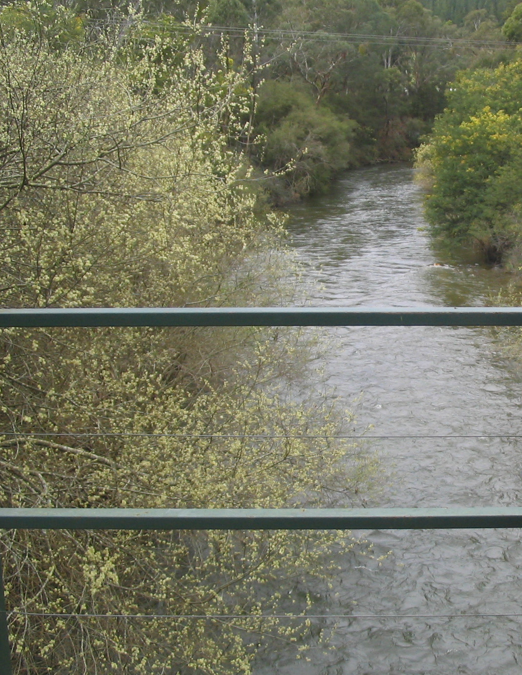 Photo by Felix Dance of the Ovens River from rail trail bridge at Bright